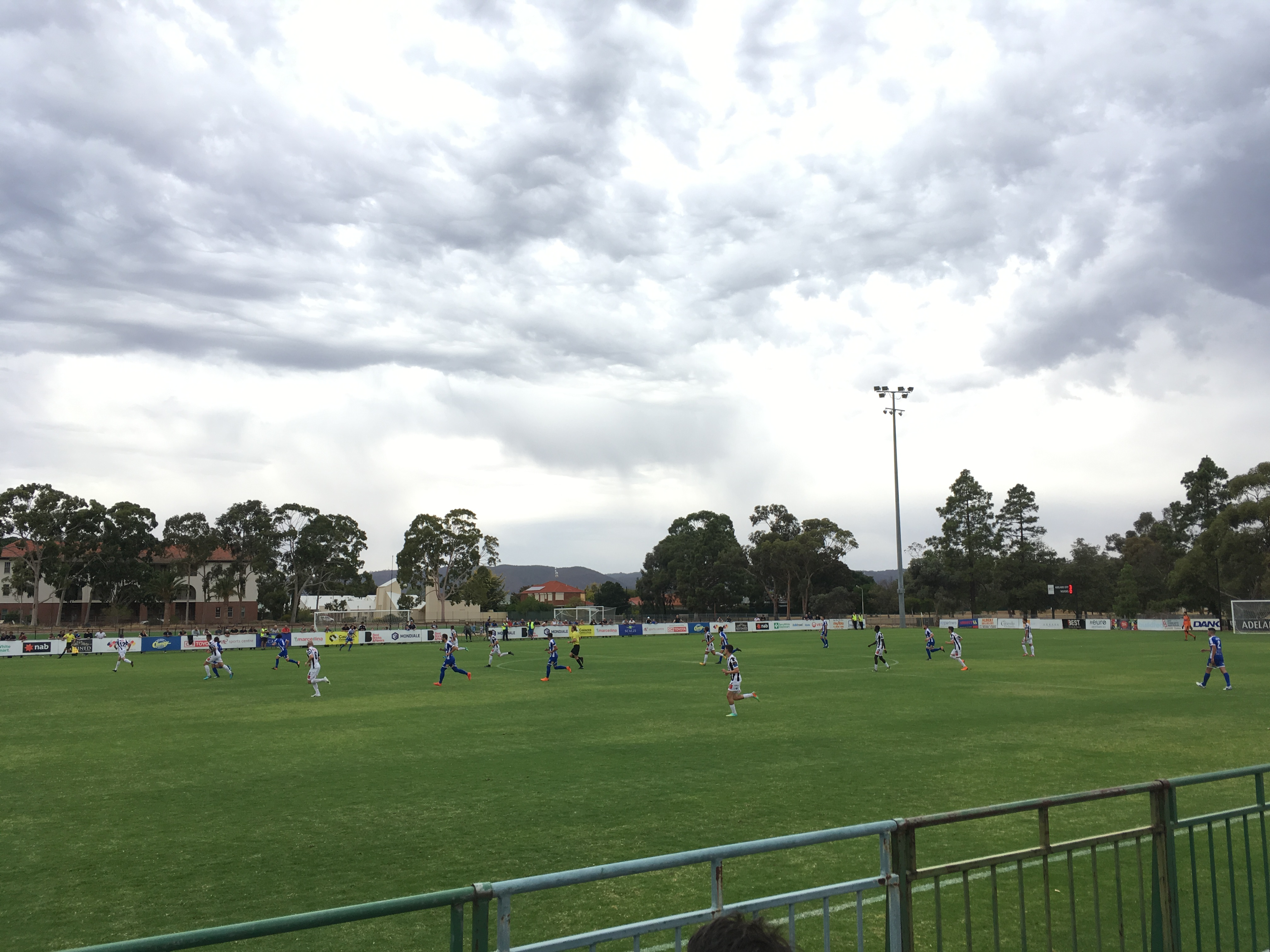 Adelaide City take on West Adelaide at Adelaide City Park in a National Premier Leagues South Australia match.